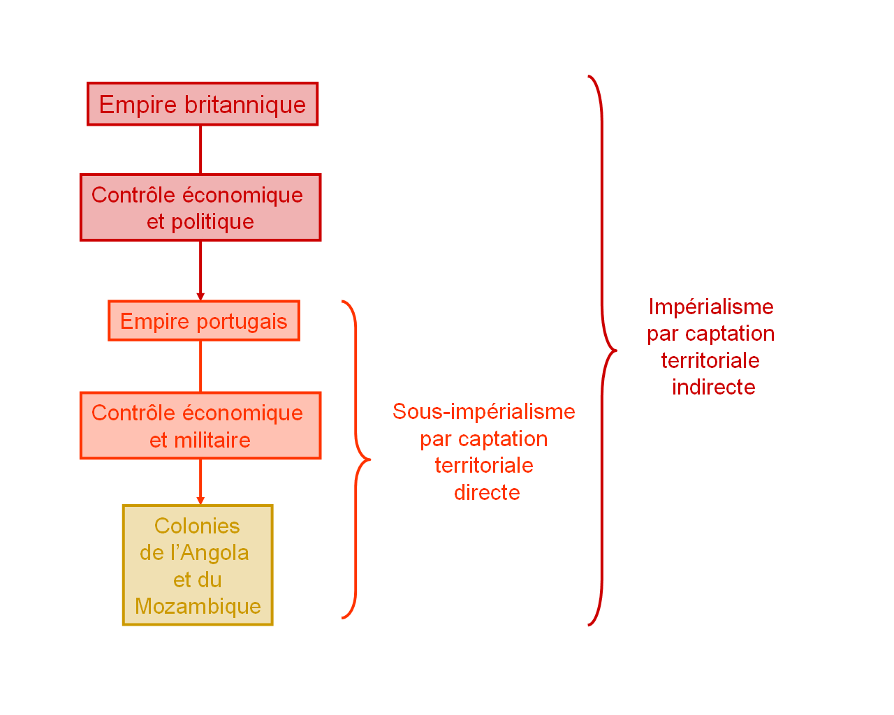 Imperialist model, with sub-imperialist constituent, of control with indirect territorial illegal securement within the framework of the empire colonial Portuguese